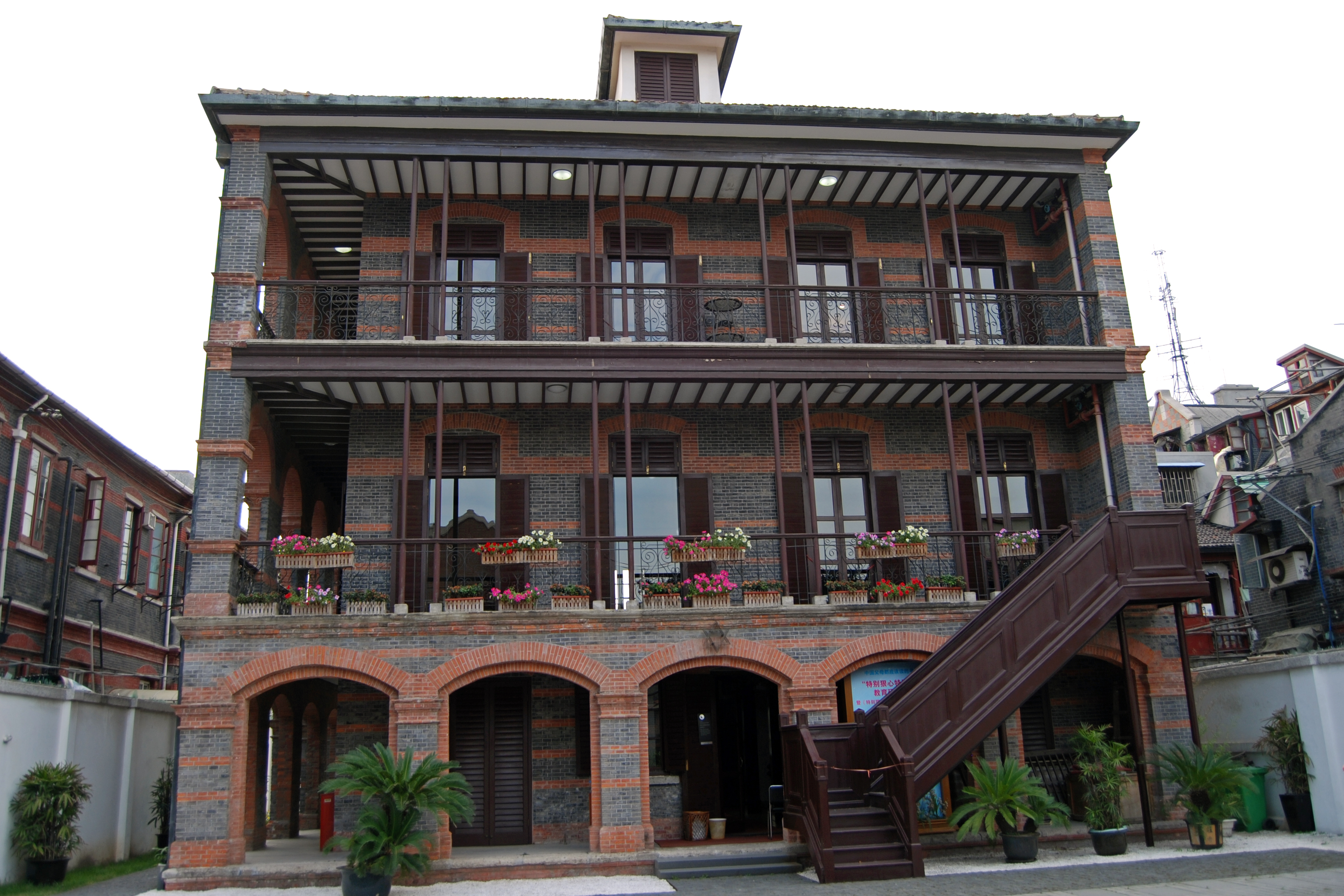 Ohel Moishe Synagogue, in the former Jewish ghetto of Shanghai, China